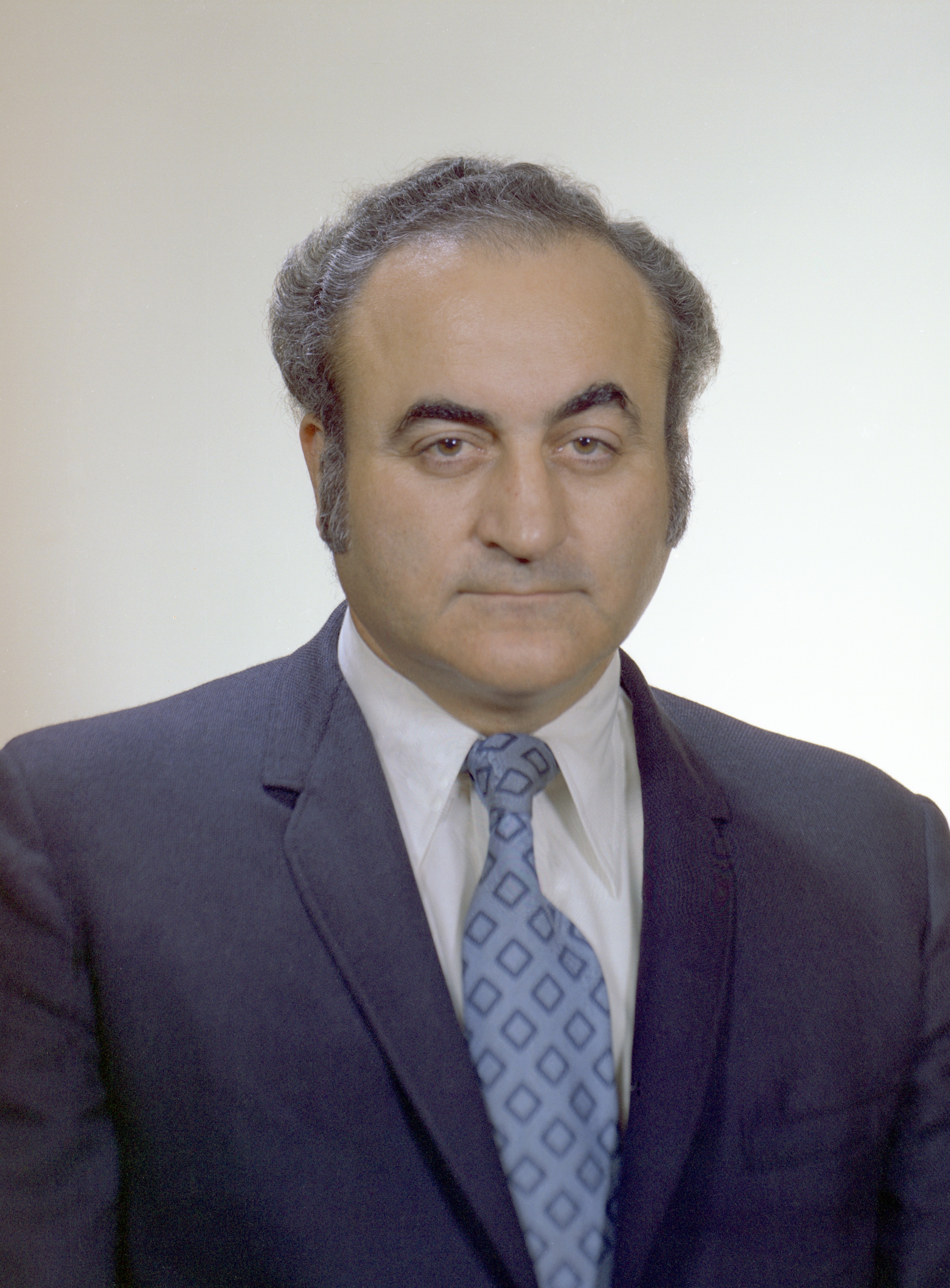 Dr. Rocco A. Petrone served at director of the Marshall Space Flight Center from January 26, 1973 to March 15, 1974. Prior to his tenure at Marshall, Petrone served as director of the Apollo program and director of launch operations at Kennedy Space Center. His career in rocket development and space programs began with his participation in the development of the Redstone missiles at the Army's Redstone Arsenal in Huntsville, Alabama. Upon his departure from Marshall, Petrone served as NASA Associate Administrator for Center Operations.